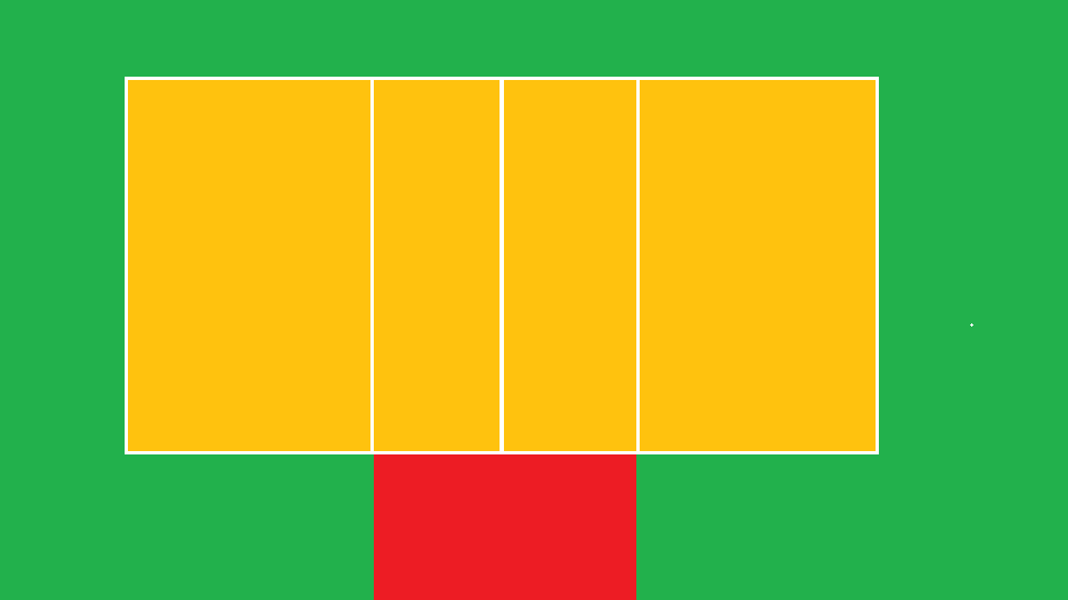 substitution zone of volleyball